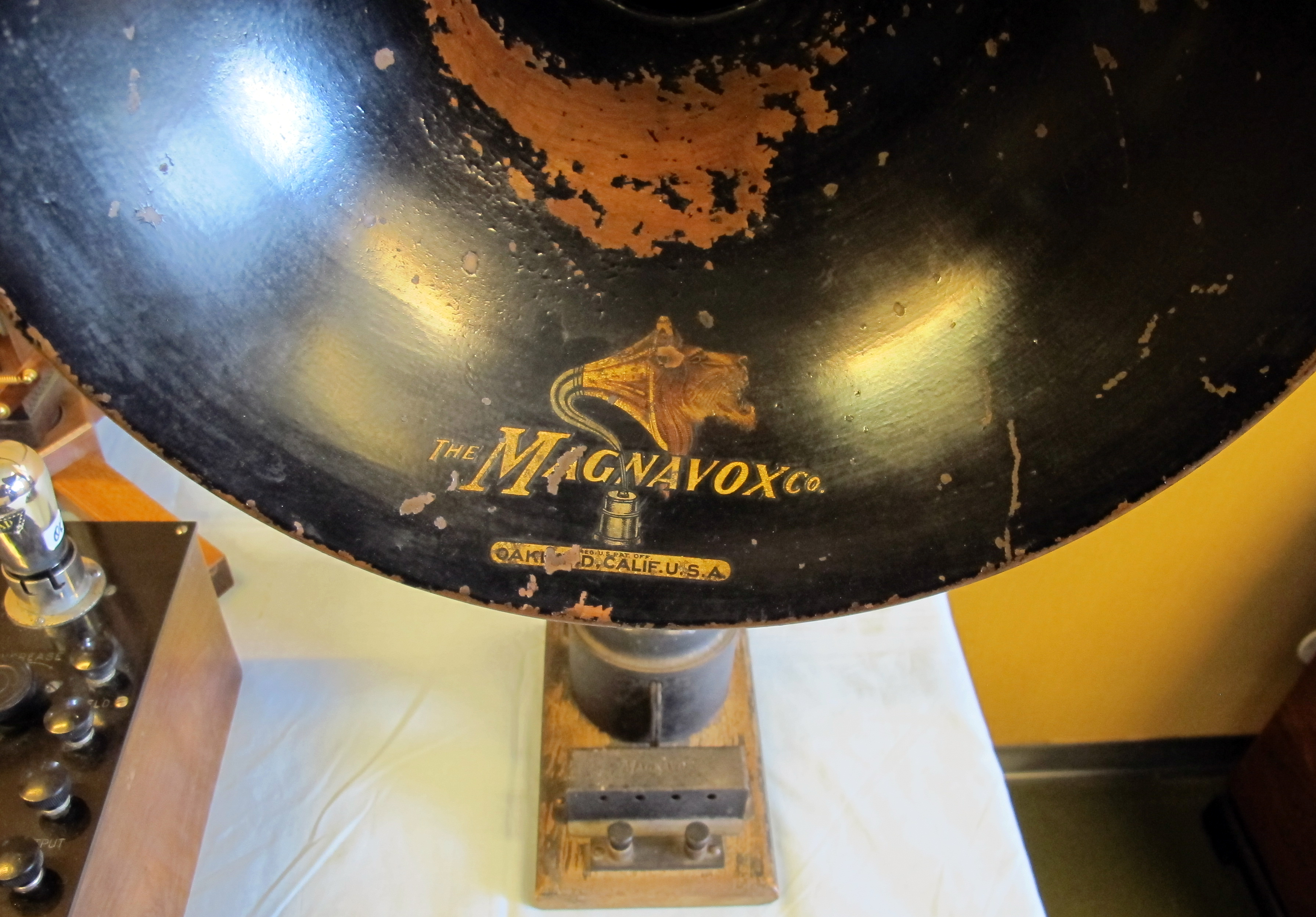 Antique radios amateurs exhibition (Florence 2014)